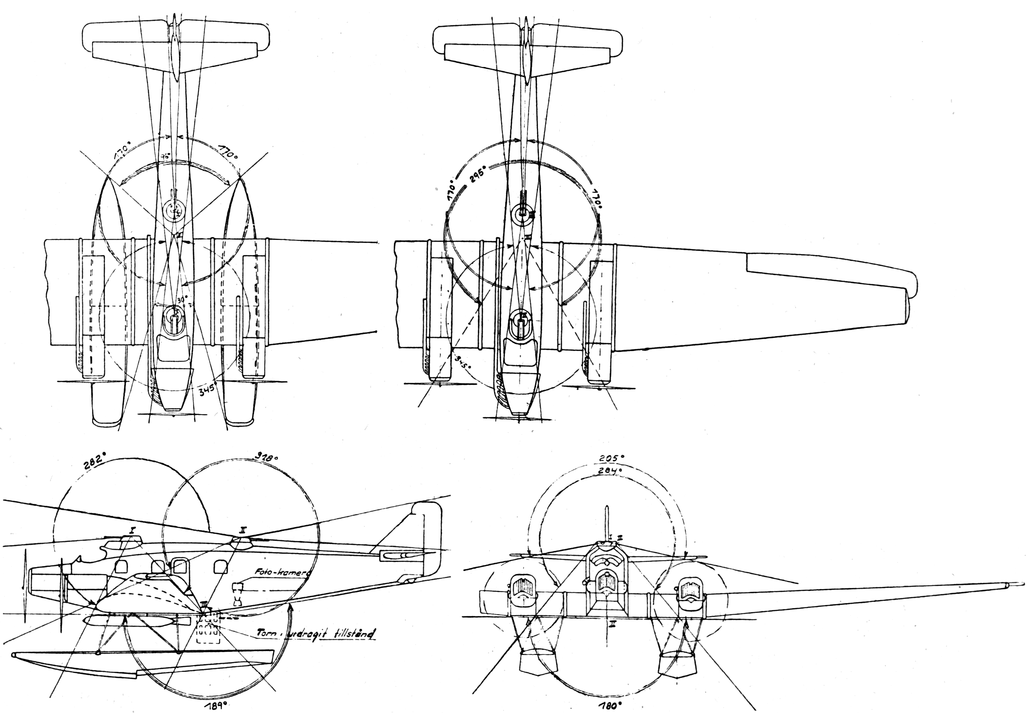 Junkers R 42 3-view drawing from L'Aéronautique October,1926